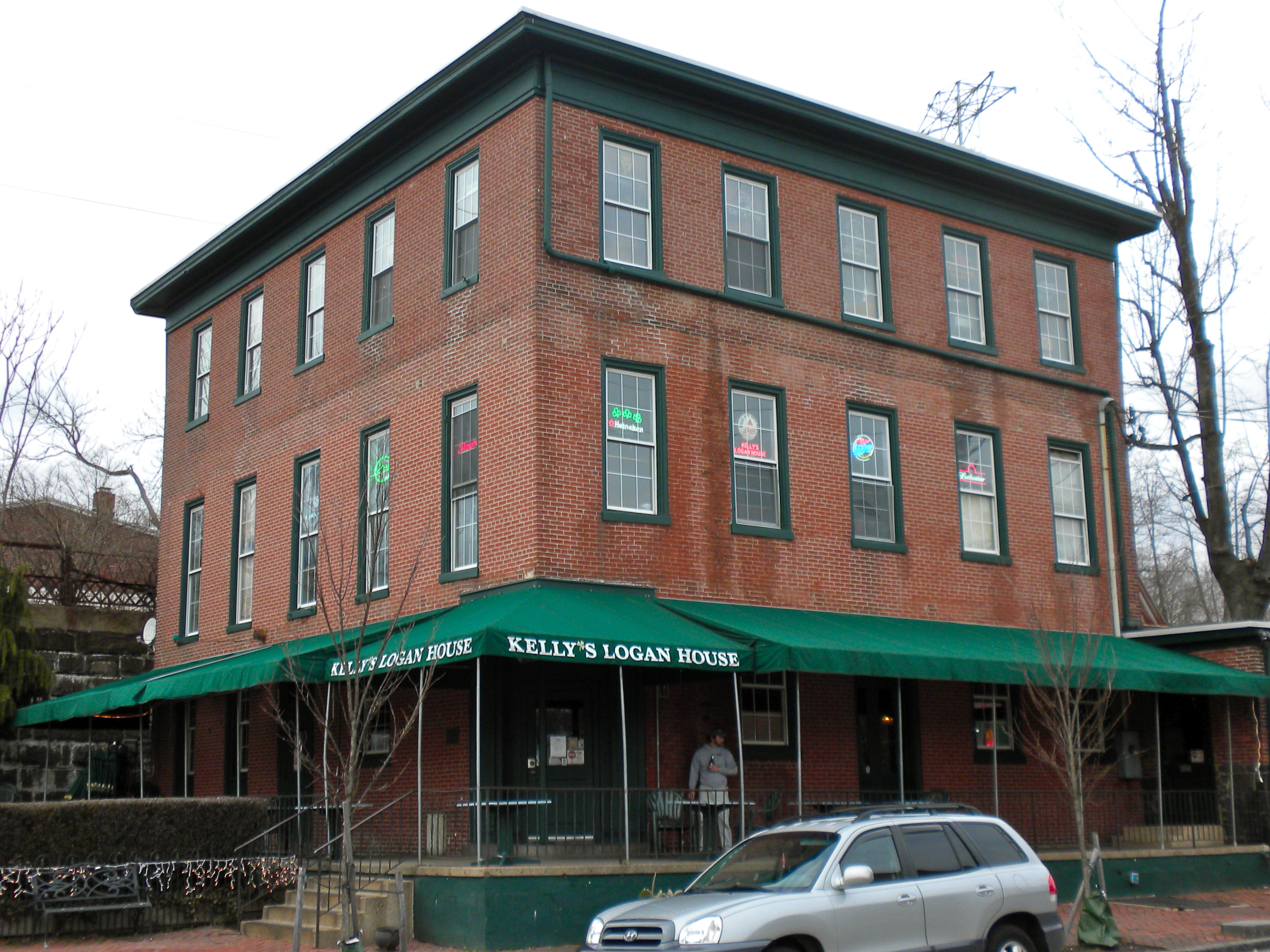 Logan House, 1701 Delaware Ave. Wilmington, Delaware. It now houses a bar, and has probably always housed a bar or hotel. Next to the "Augustine Cutoff" railway line, in the Trolley Square neighborhood. On the NRHP